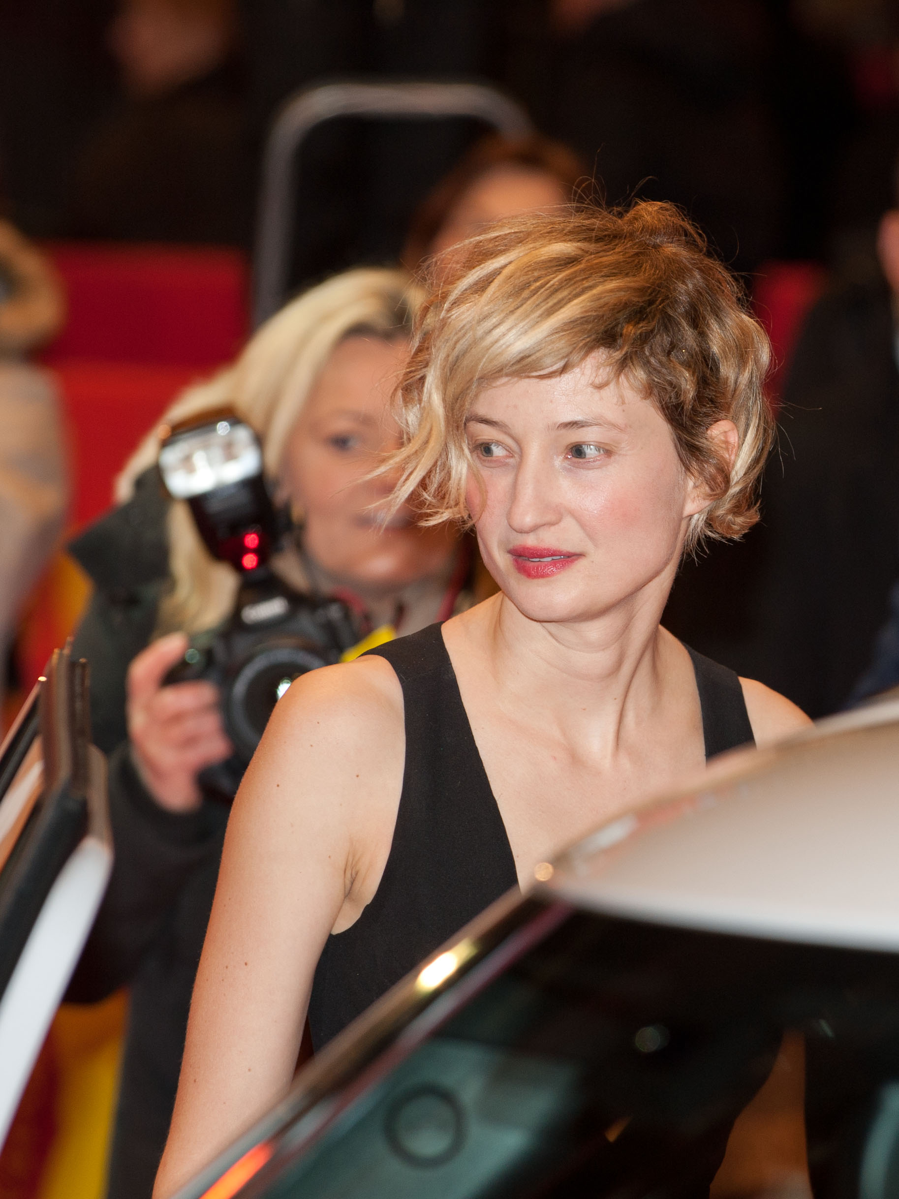 Italian actress Alba Rohrwacher, member of the jury for the 2013 Shooting Stars Award; Arrival for the European Shooting Stars Award Ceremony